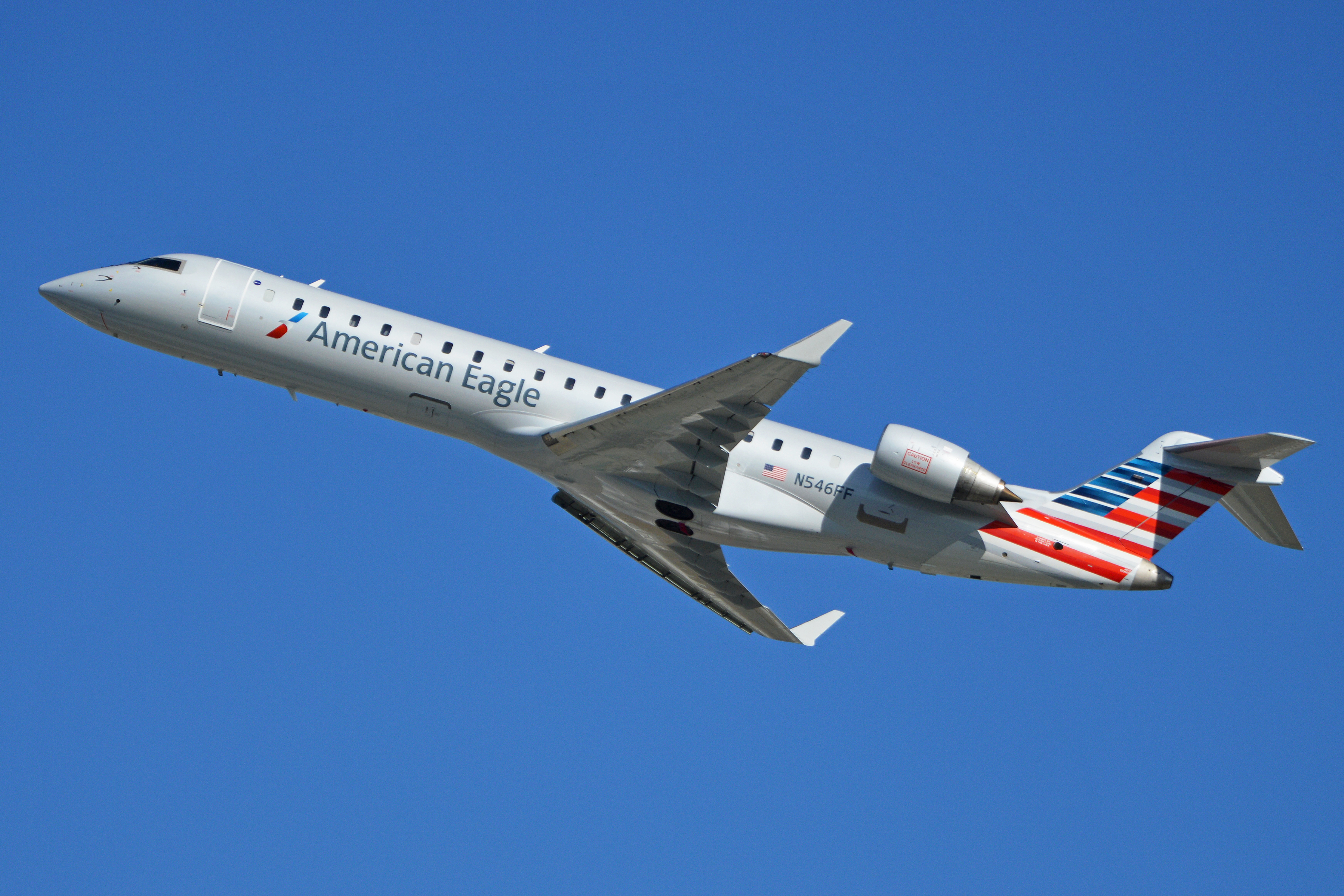 c/n 10326. Built 2011. Seen departing LAX and taken from the Imperial Hill spotting location. Los Angeles, California, USA. 08-2-2014